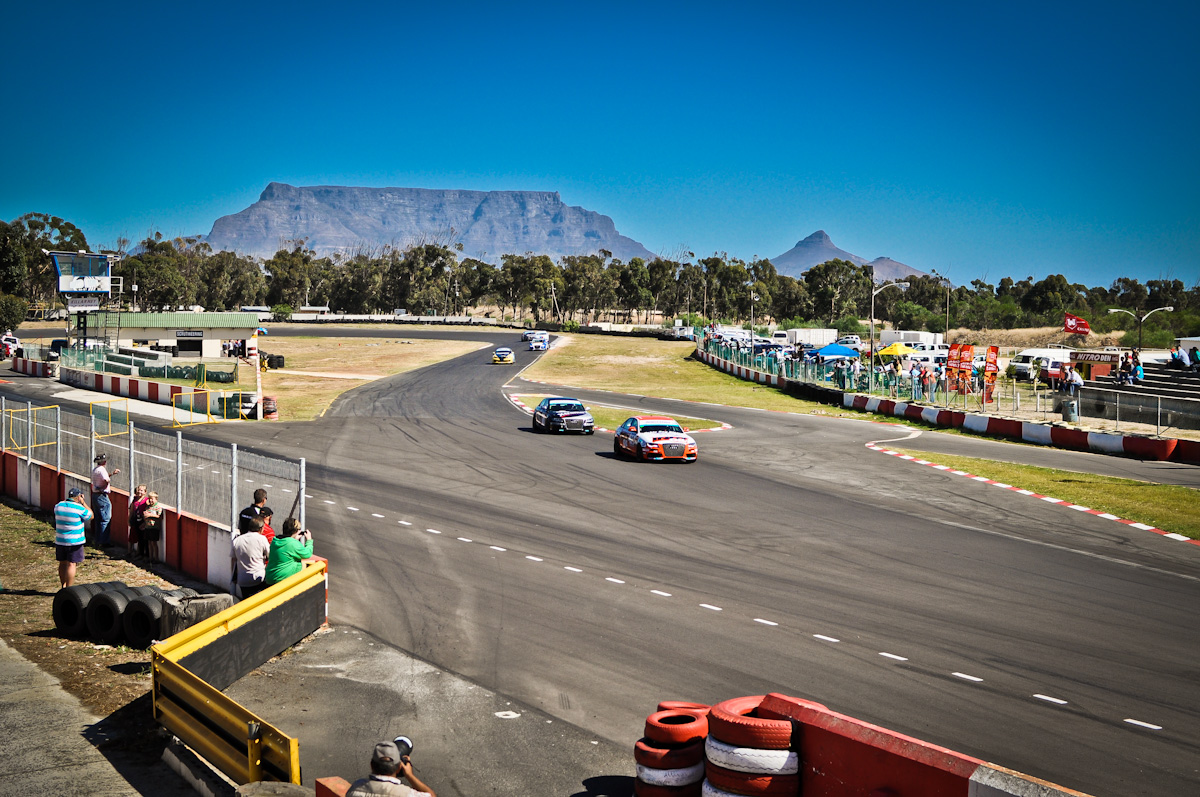 Touring cars with Table Mountain showing off